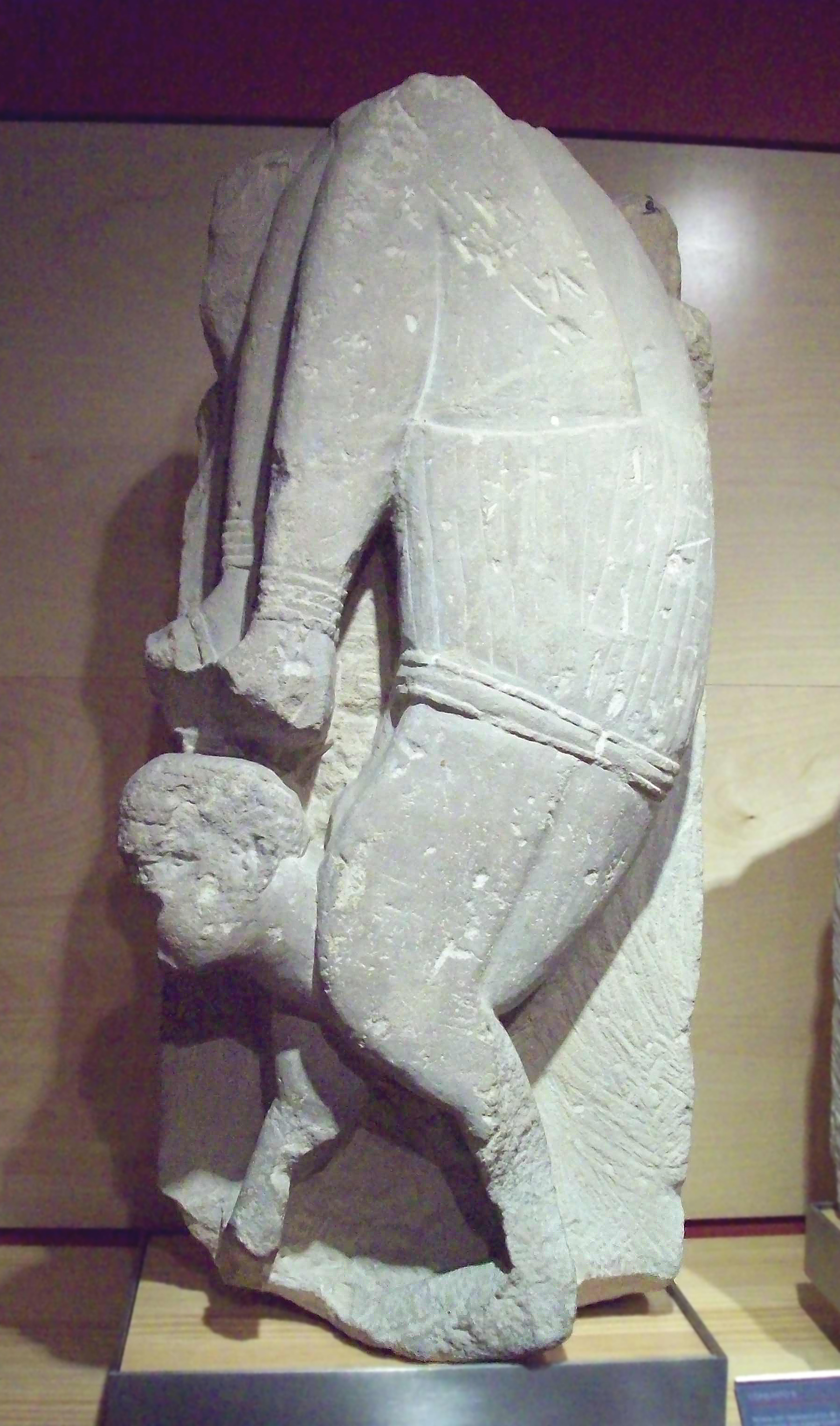 An Iberian high-relief representing an acrobat, related with funeral games. This piece is part of the Group B of the Sculptures of Osuna.